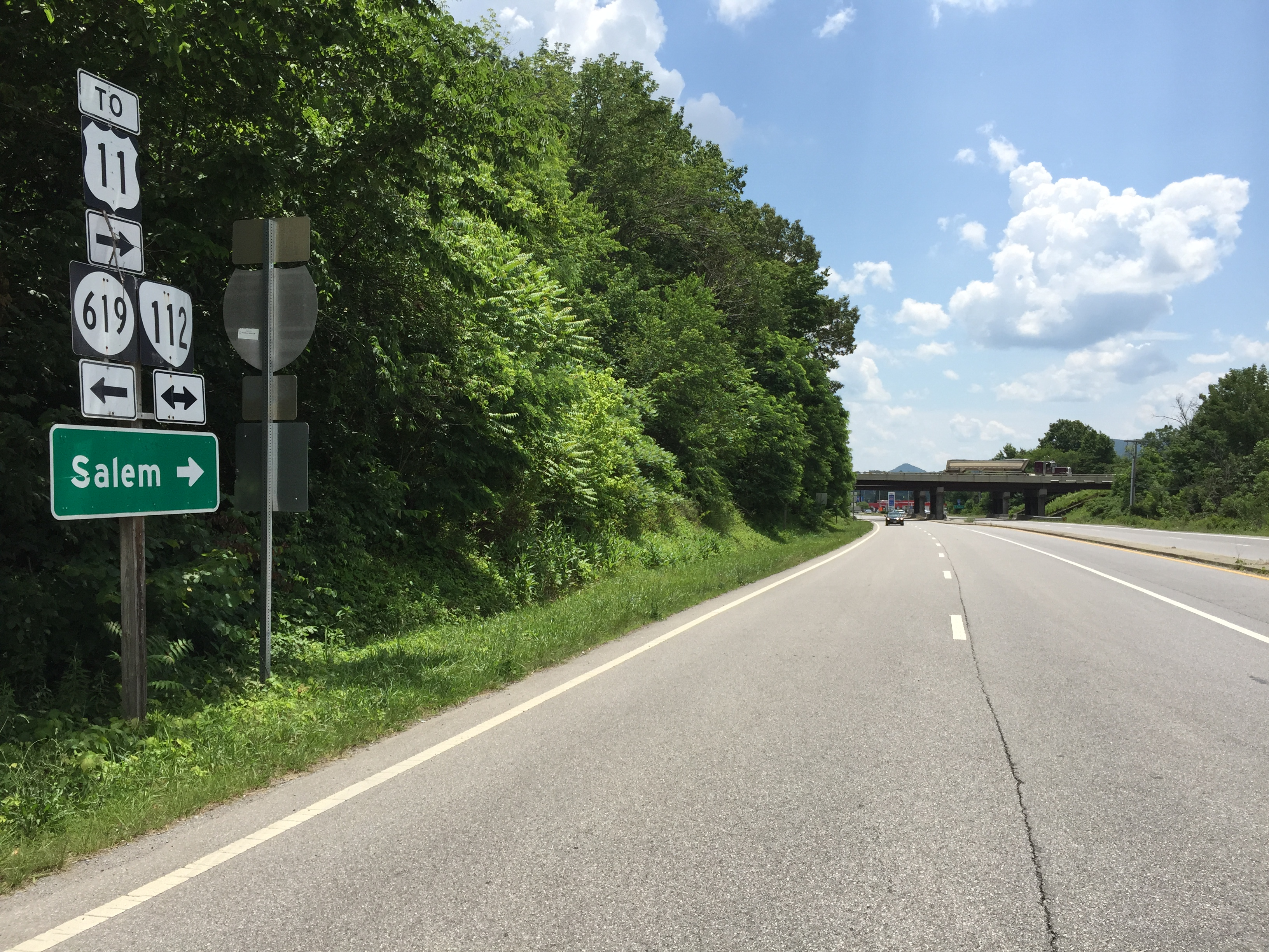 View south along Virginia State Route 112 (Wildwood Road) at Interstate 81 in Salem, Virginia